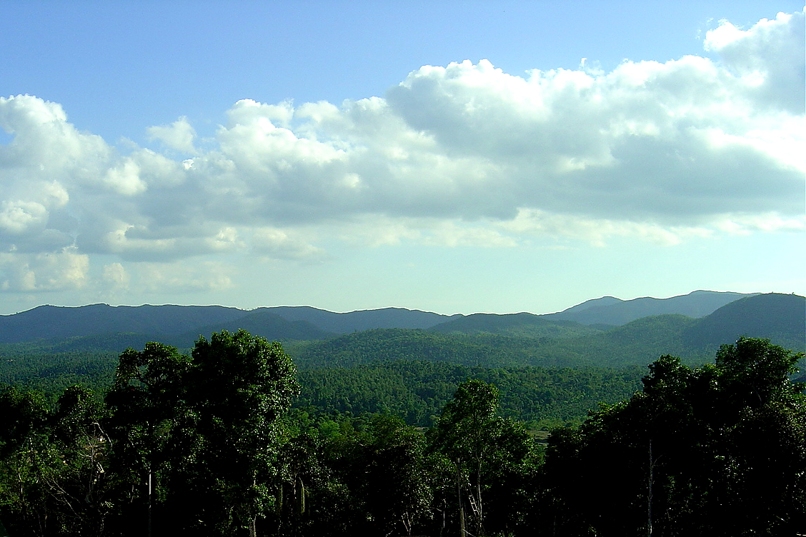 Cobras on coffee plantation